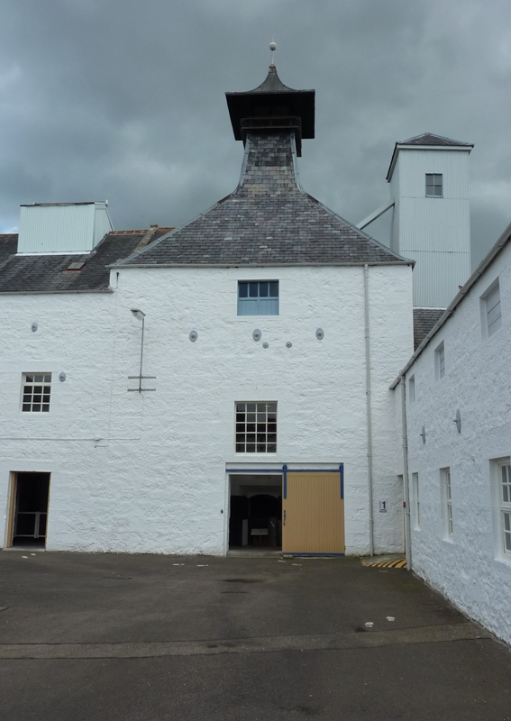 Dallas Dhu Distillery, Moray, Scotland - malt kiln